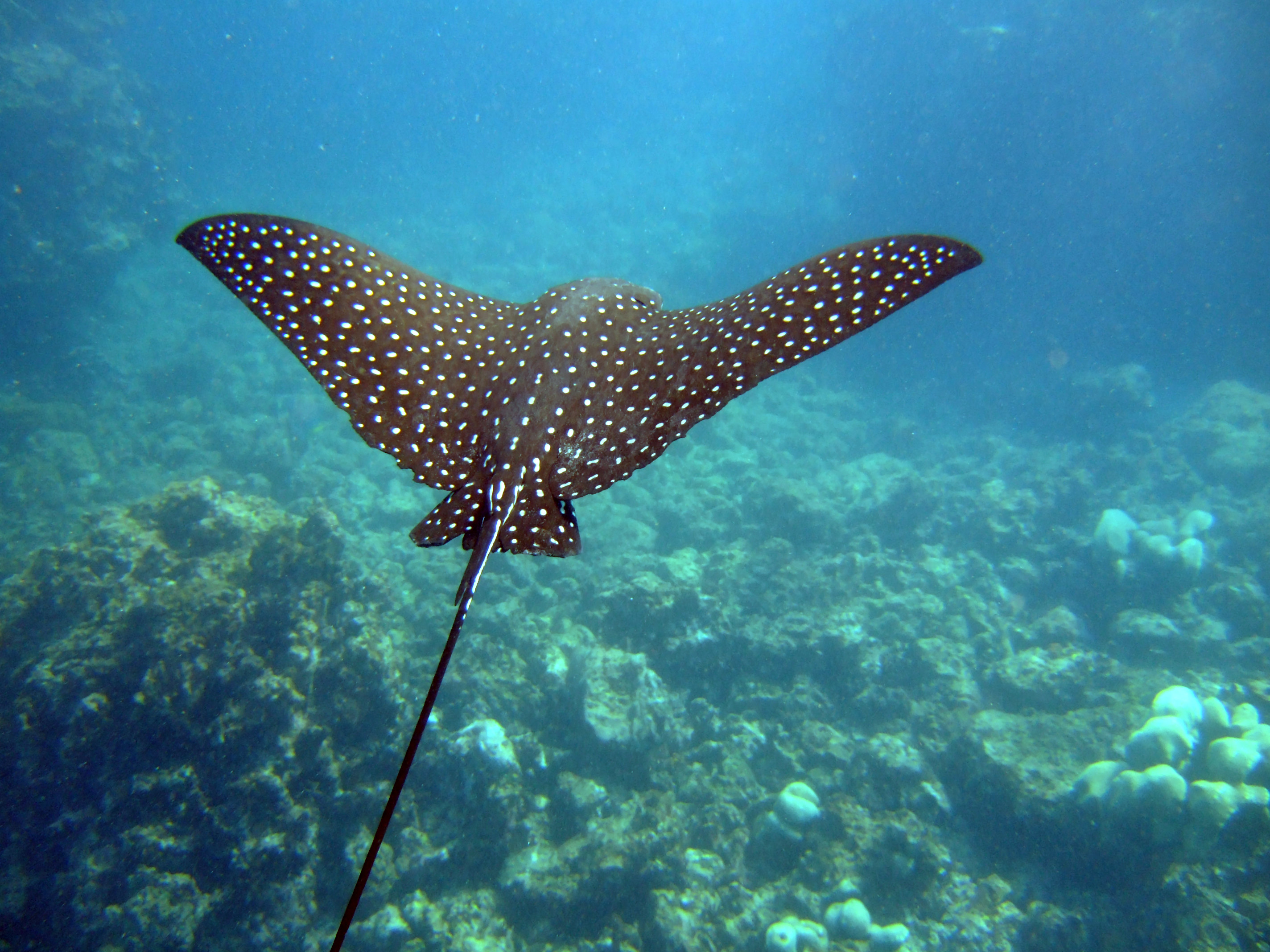 Spotted Eagle Ray (Aetobatus narinari) Flying underwater